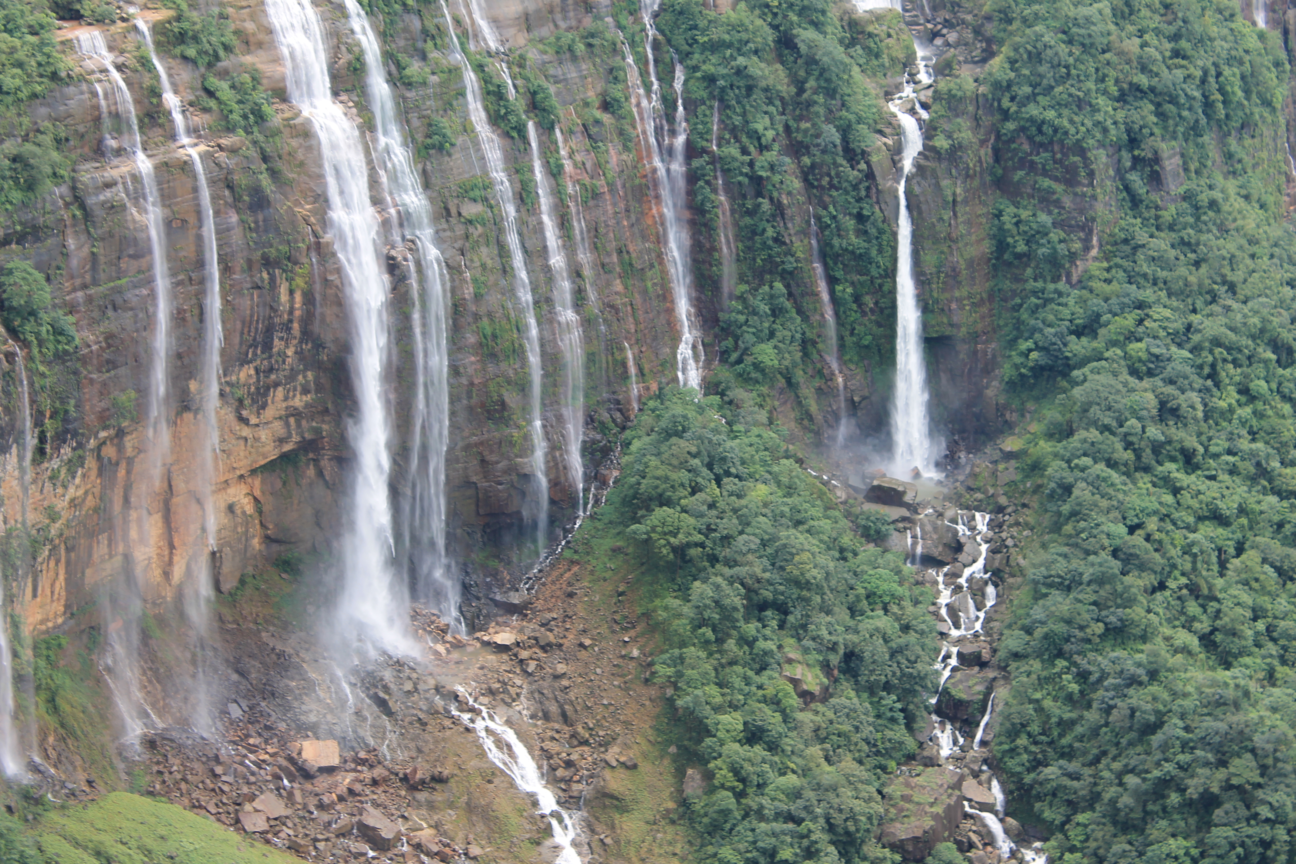 A shot of the Seven sisters falls